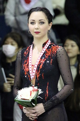 Elizaveta Tuktamysheva at the 2015 Skate Canada.